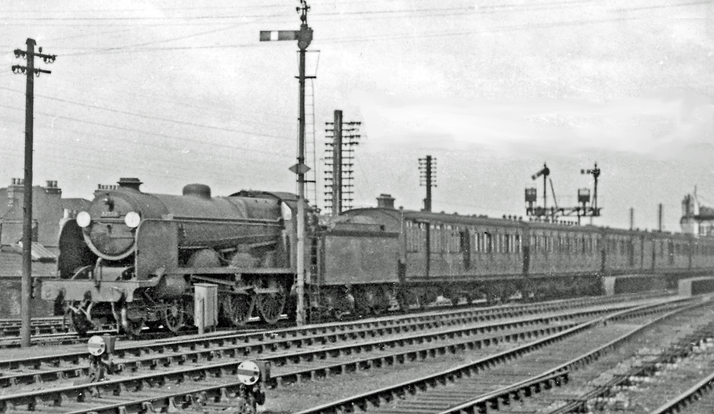 Local train from Basingstoke entering Reading General. View SW from west end of the station, towards all points west on the ex-GWR main lines, also the branch to Basingstoke via Reading West. The train is headed by Maunsell SR 'Remembrance' N15X class 4-6-0 No. 32330 'Cudworth' (built as 4-6-4T in 12/21, rebuilt as 4-6-0 9/35, withdrawn 8/55)